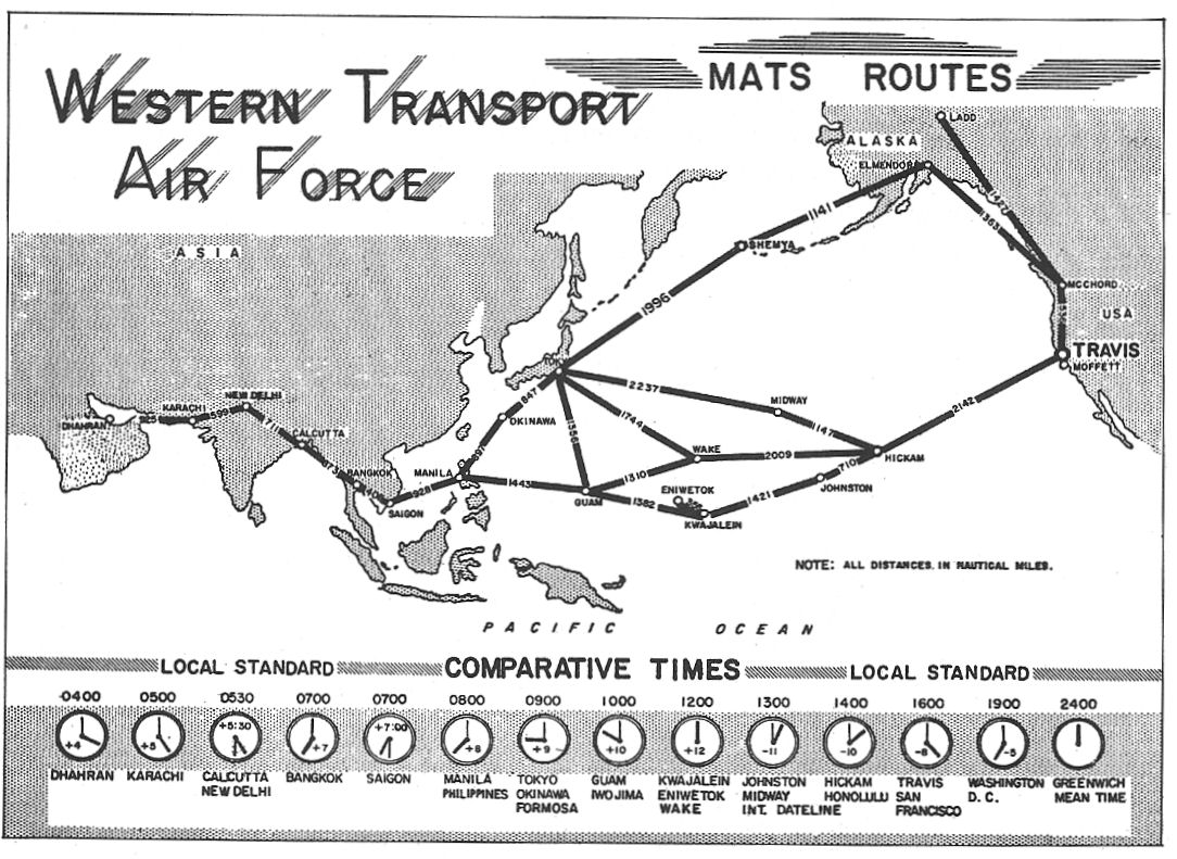 Routemap of the MATS Western Transport Air Force, 1964